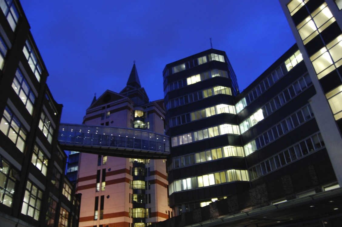 LSE, Houghton Street, London Bridge between the library and St Clement St